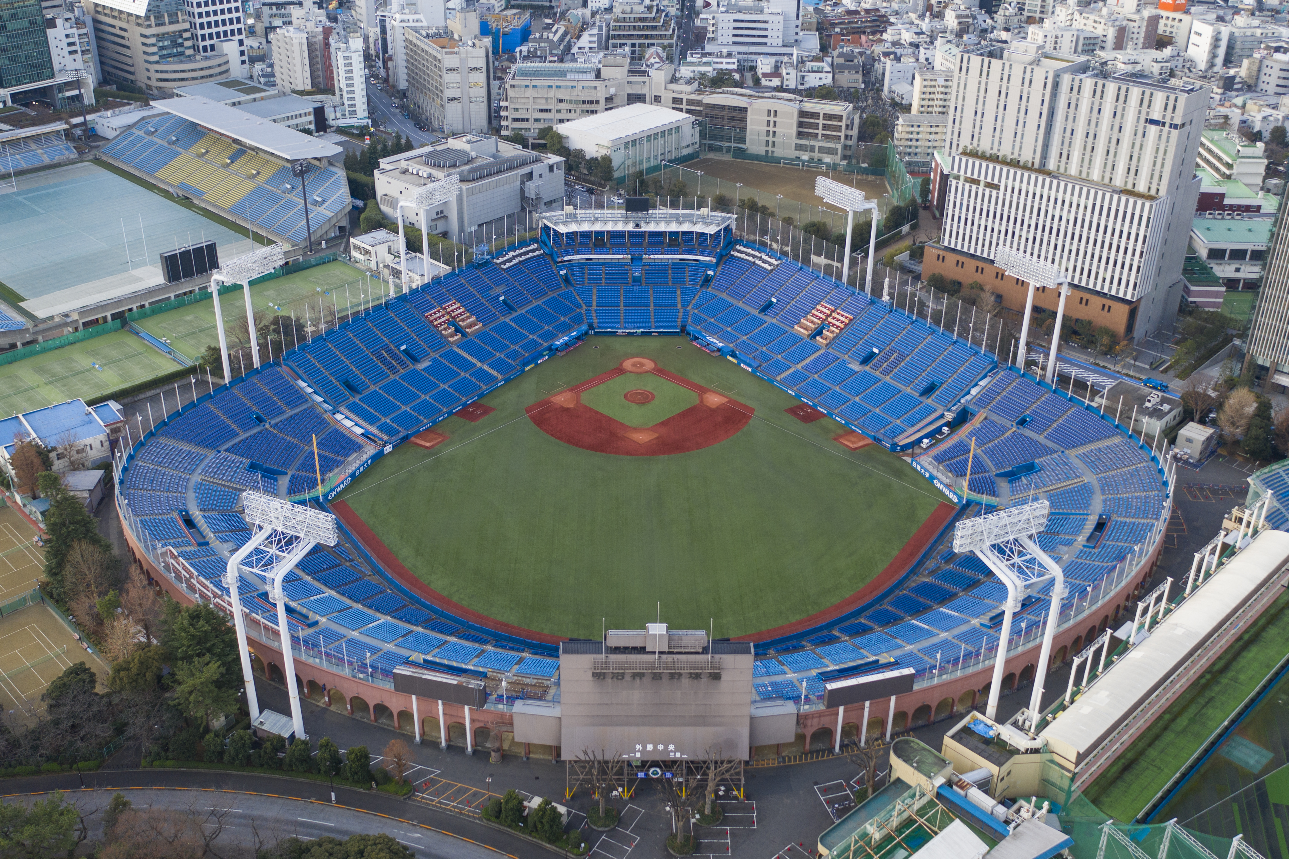 Aerial view of Meiji Jingu Stadium, Tokyo, Japan